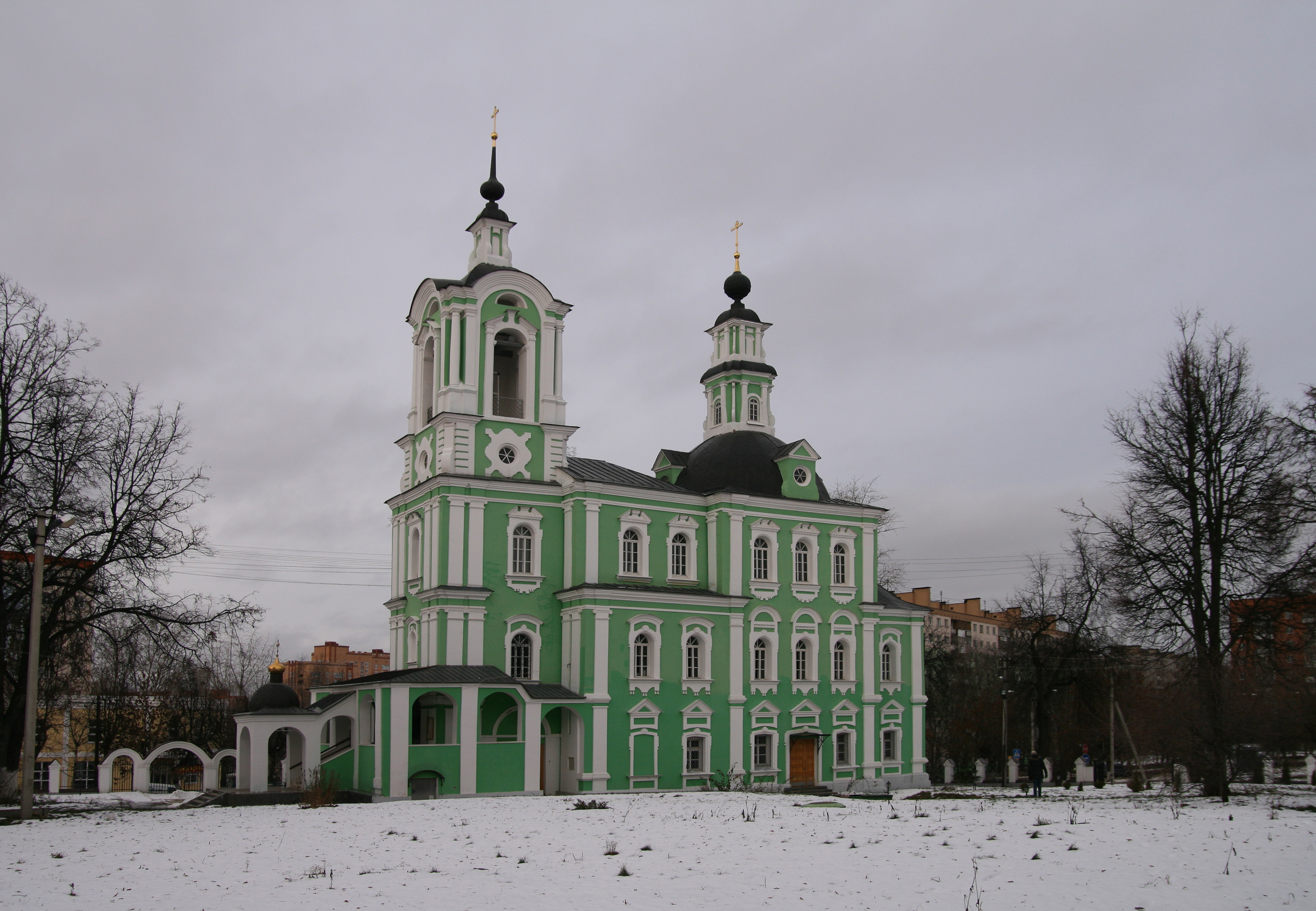 The Holy Trinity Church (Church of the Theotokos of Tikhvin), Dmitrov